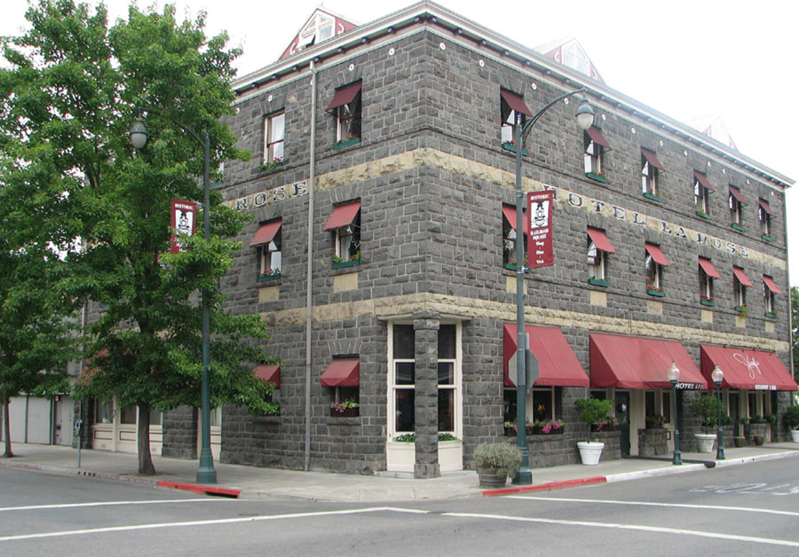 The Hotel La Rose, built in 1907, is a functioning historic hotel in downtown Santa Rosa, California, United States.